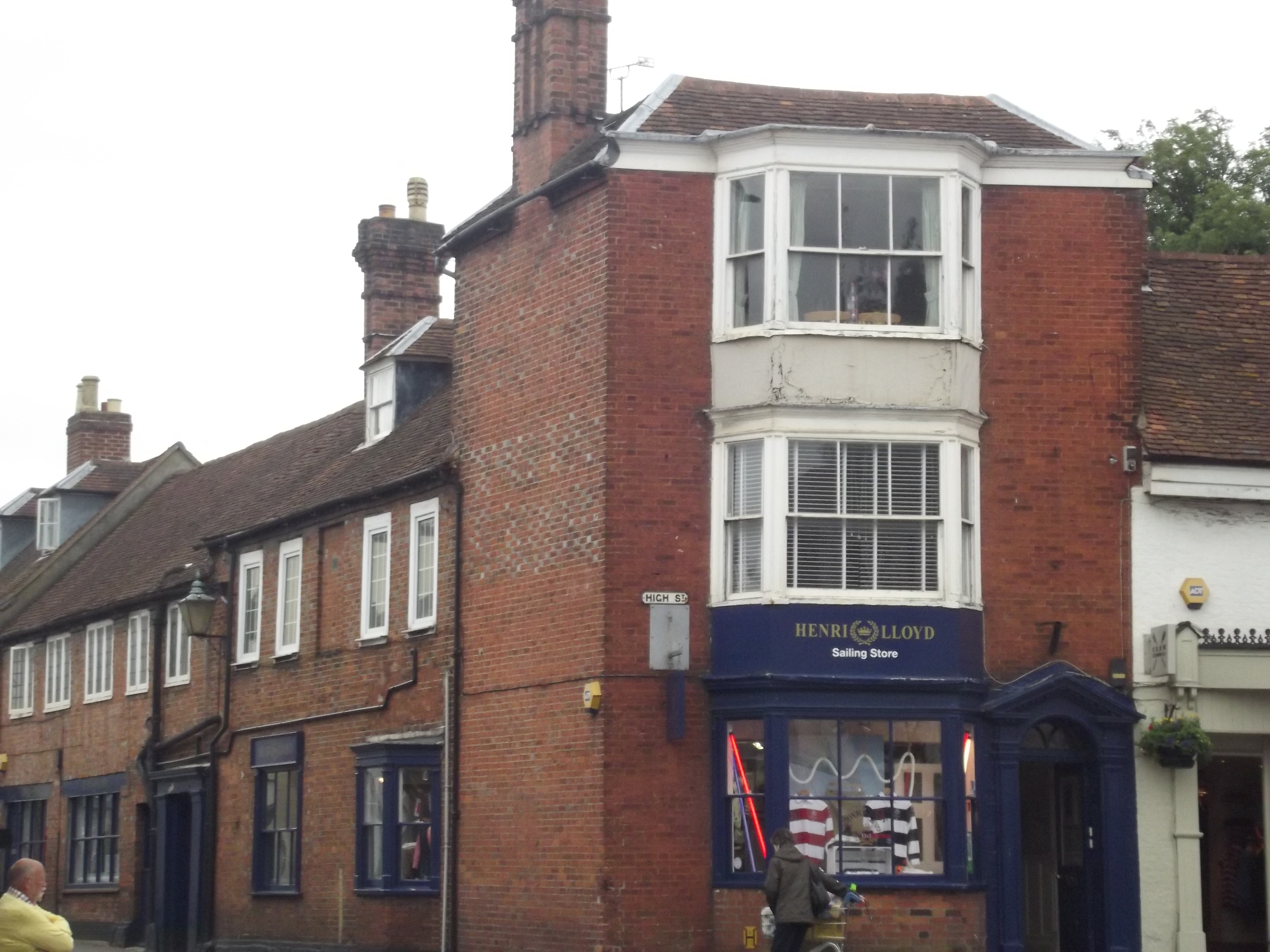 A Henri Lloyd store, Lymington, Hampshire